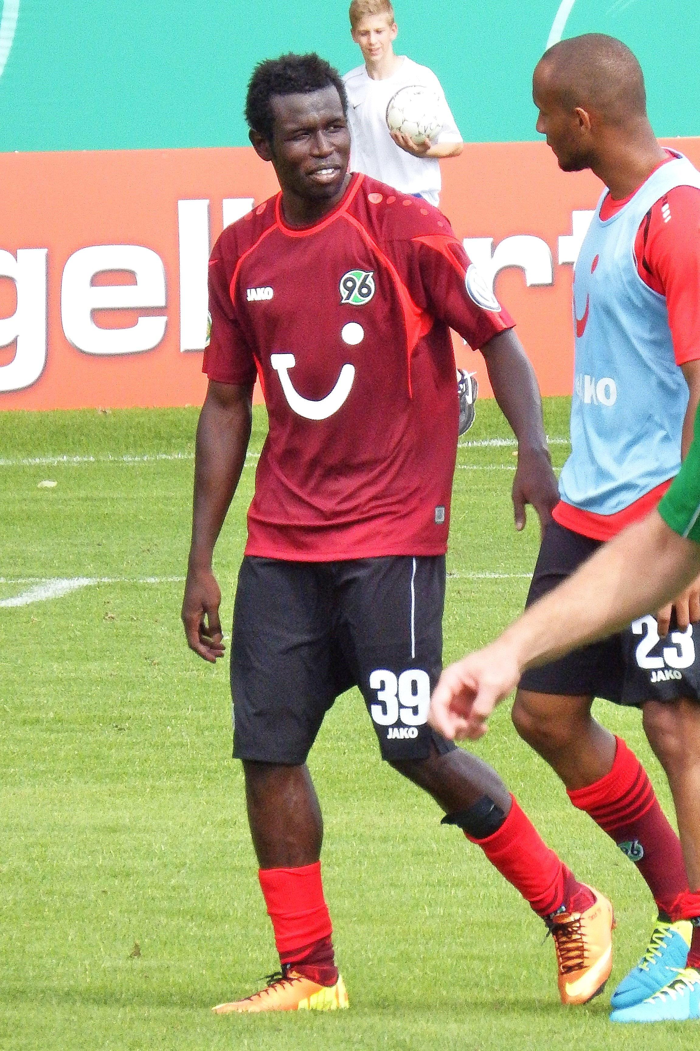 Mame Diouf as Player of Hannover 96